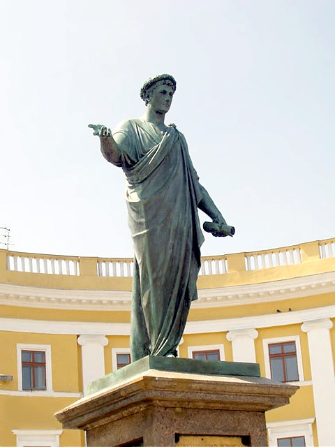 Statue of Armand-Emmanuel du Plessis, Duc de Richelieu in Odessa (unveiled in 1828). Photo courtesy Petro Vlasenko